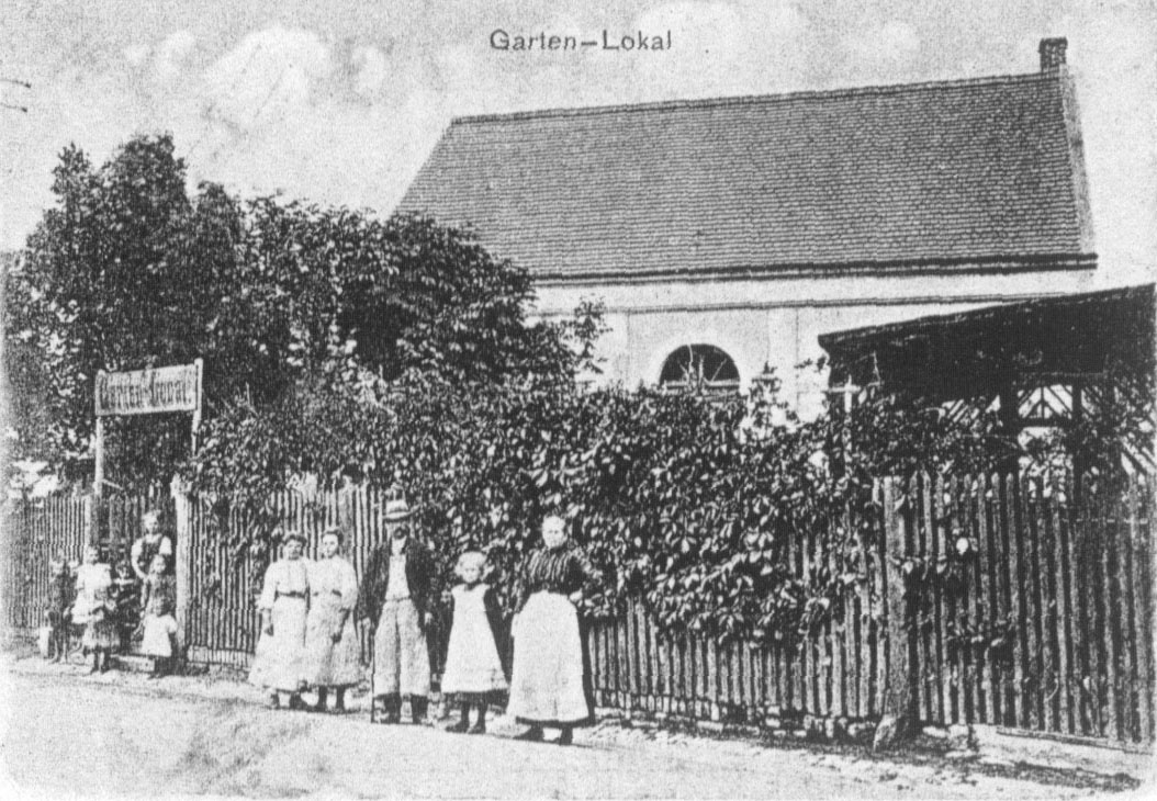 Gymnasium around 1910.